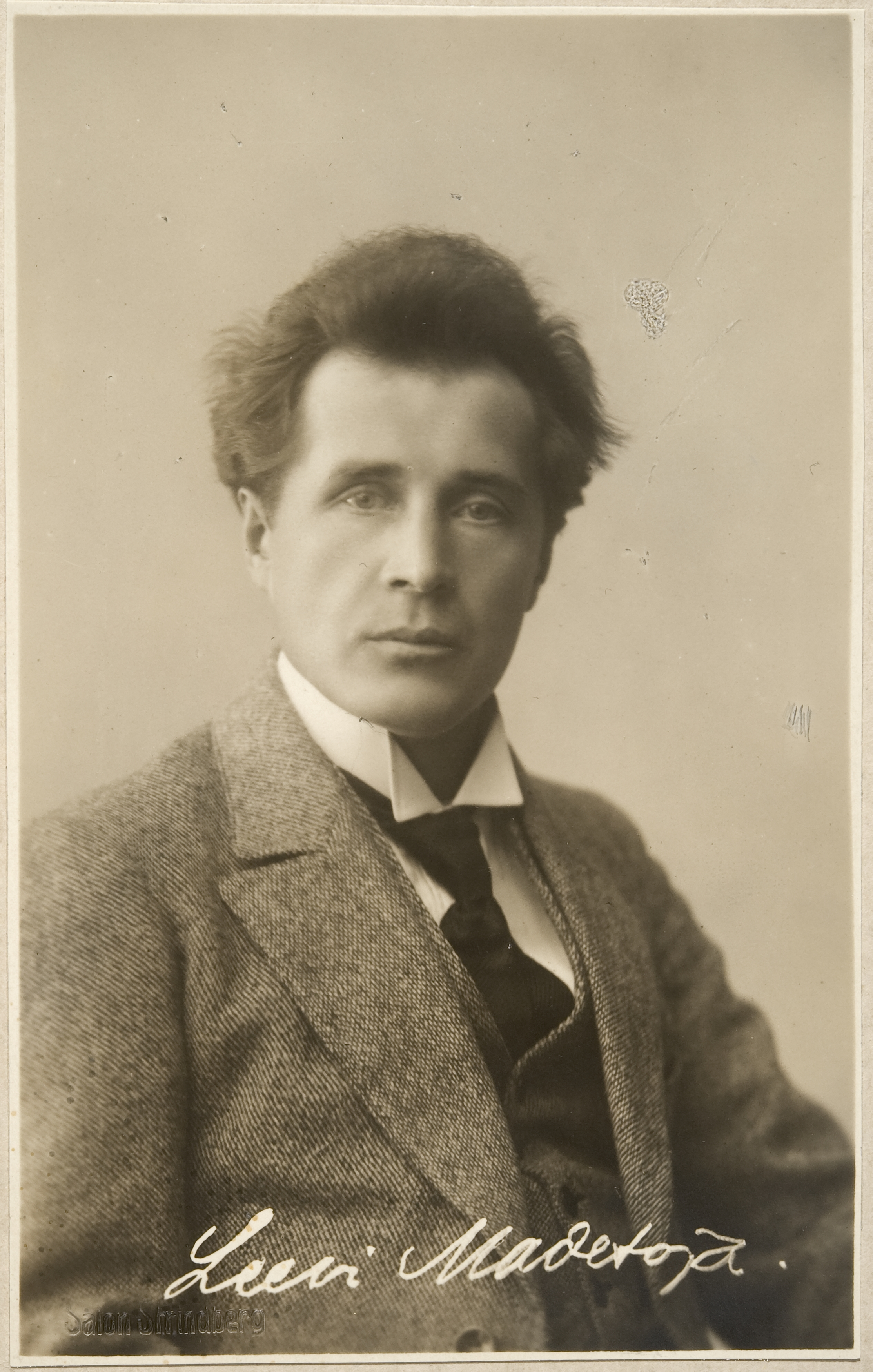 Studio portrait of Leevi Madetoja, ca. 1930.